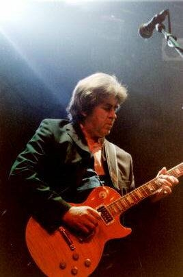 Mick Taylor onstage.